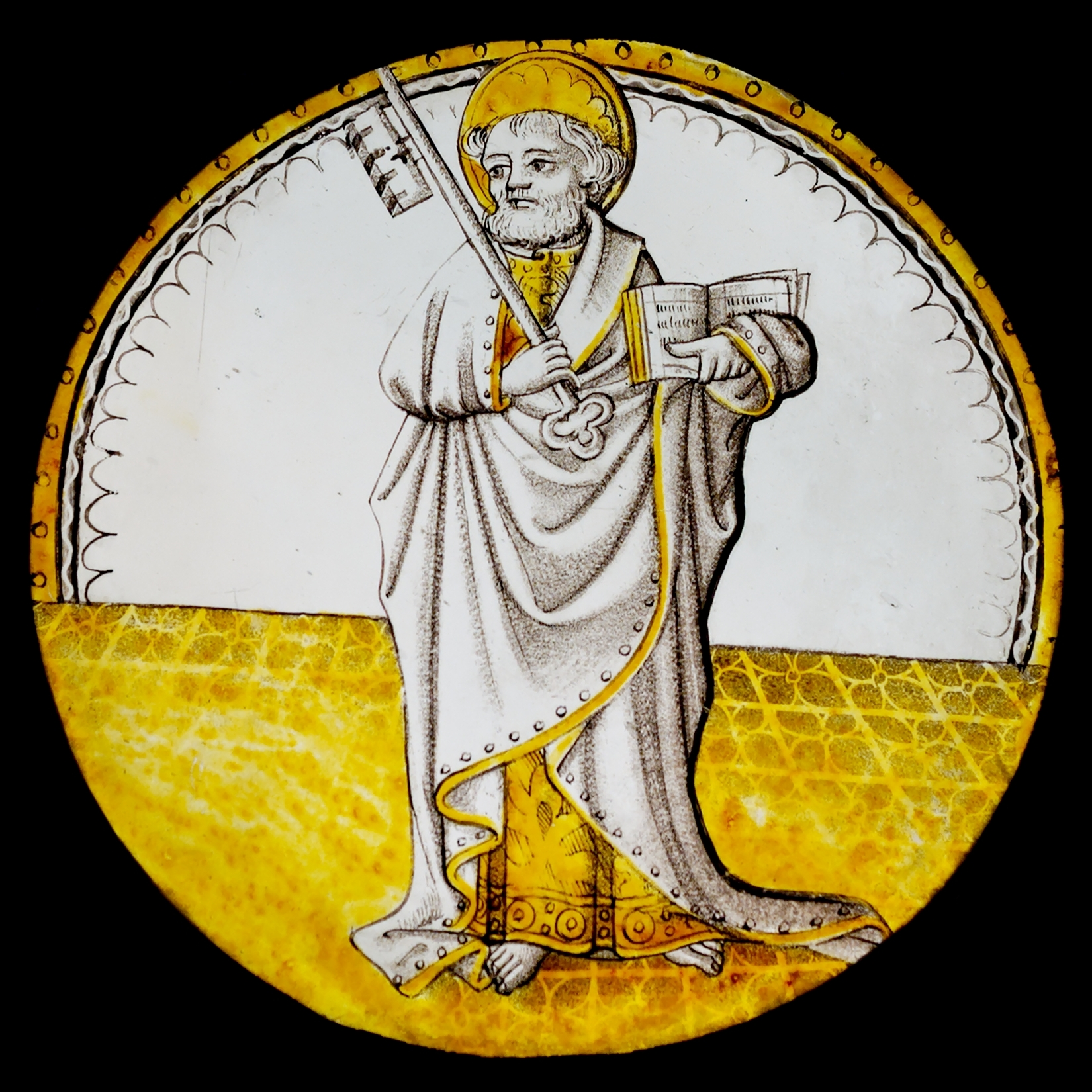 St. Peter holding a key and a printed book. Stained glass (white glass, grisaille and silver sulfide) and lead, France, ca. 1500–1510.